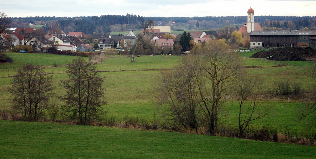 Stimpfach, Baden-Württemberg, Germany